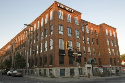 Ubisoft headquarters in Montreal